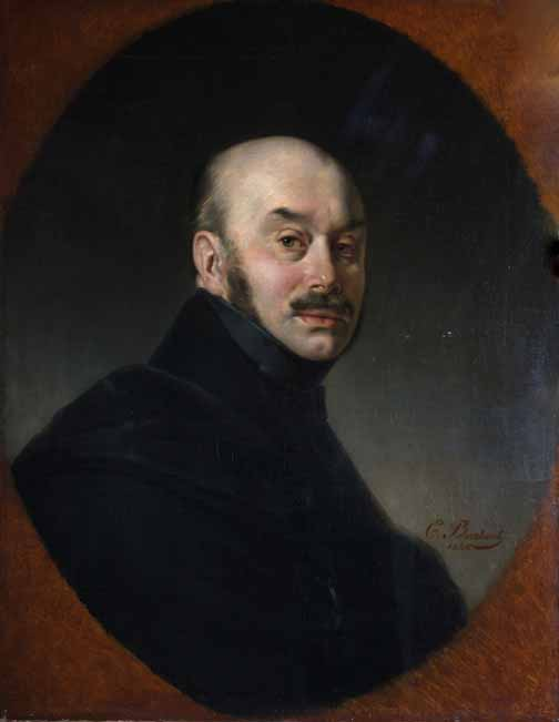 Michail Fyodorovich Orlov (1788-1842)